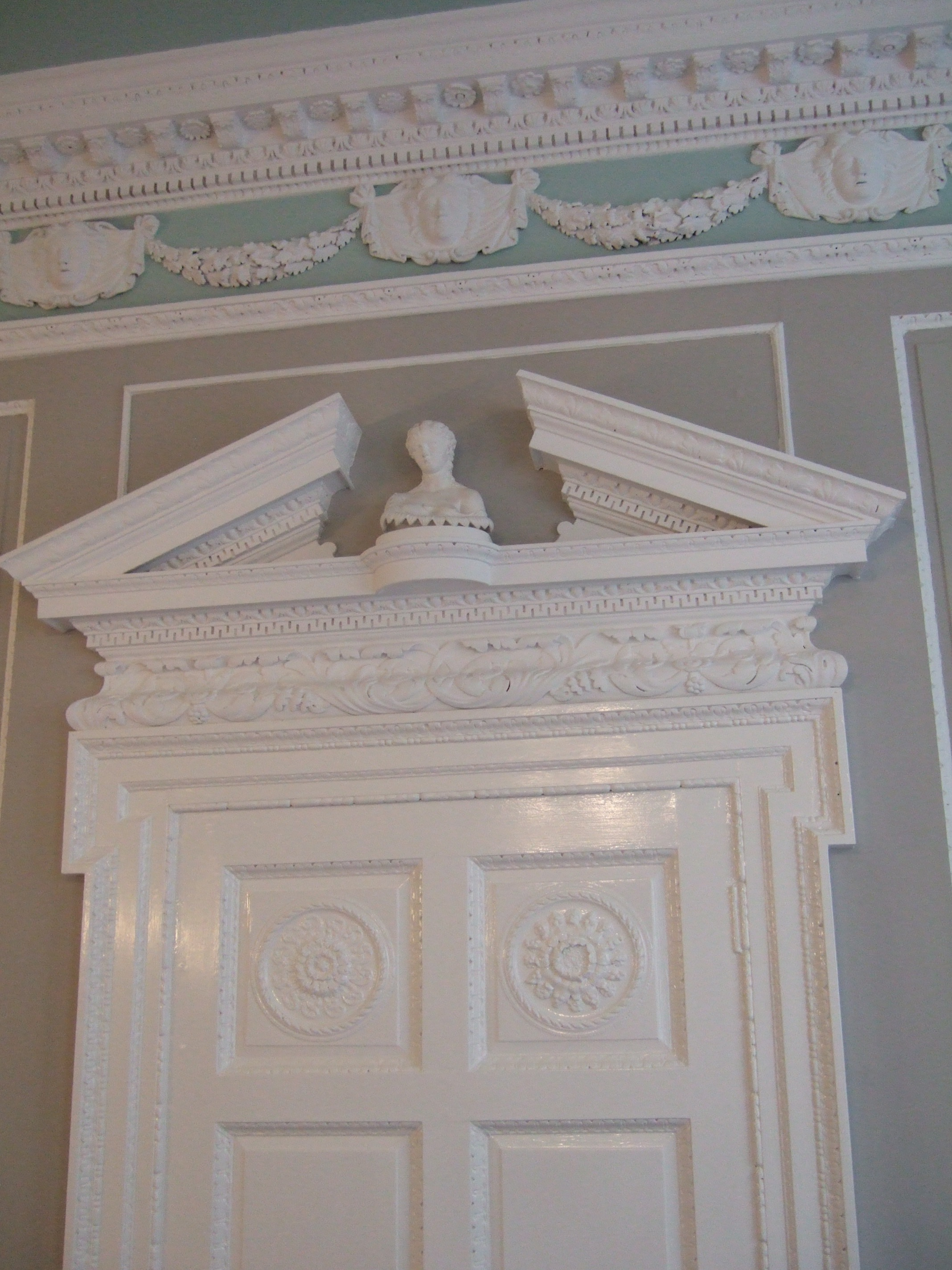 The Bastard Study, in the Bastard House, Blandford Forum. The house is now used by Age Concern. The room is open on one day a year, the first Monday in May during the annual Georgian Fayre at Blandford. The room is otherwise used as a storeroom by Age Concern.